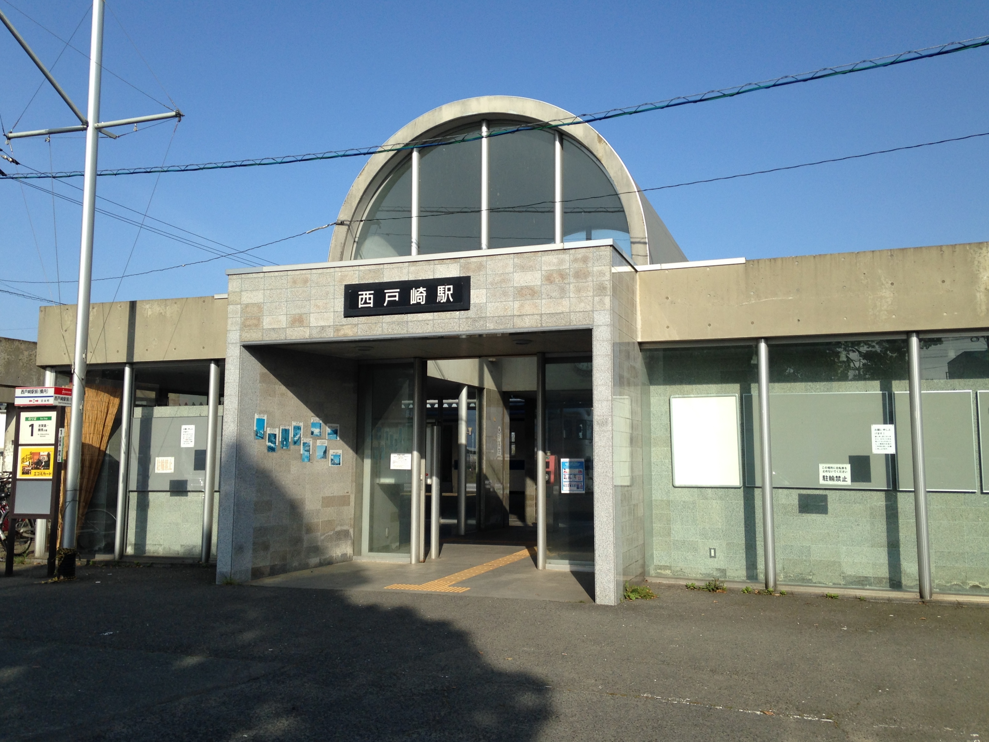 Saitozaki Station